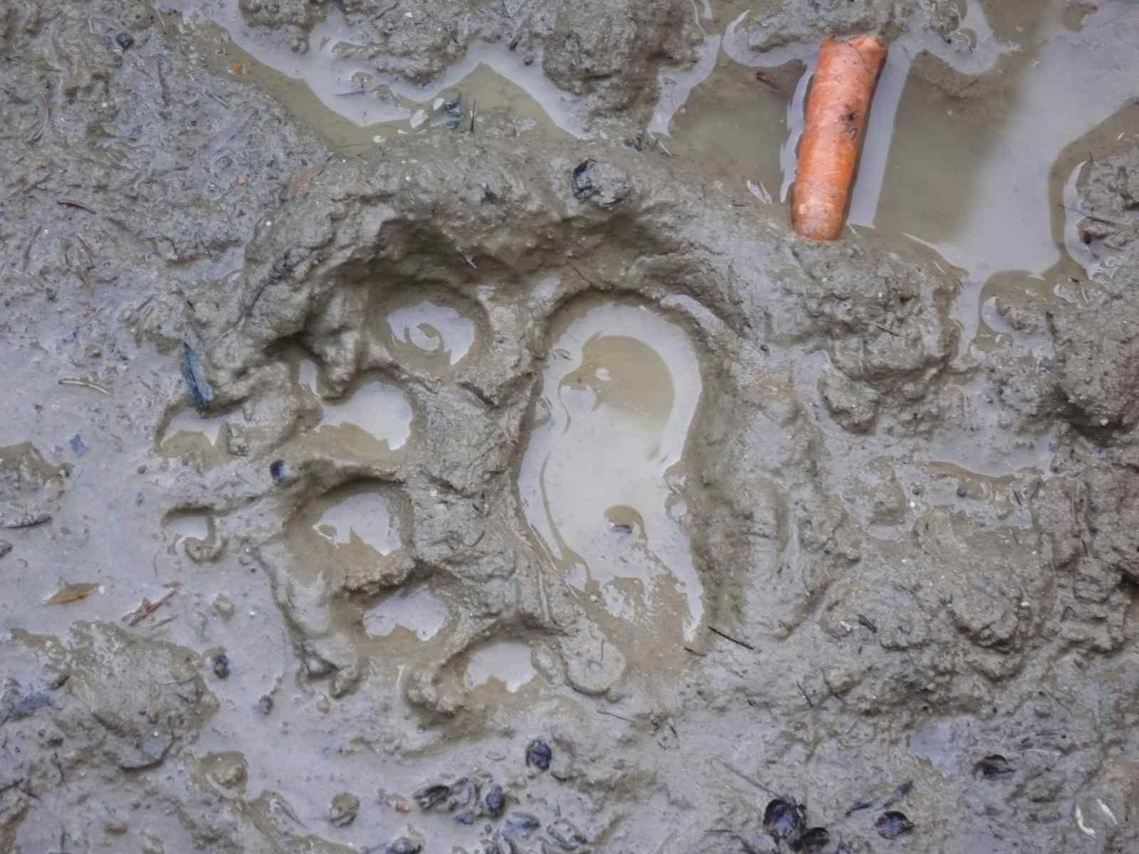 Trace of a brown bear